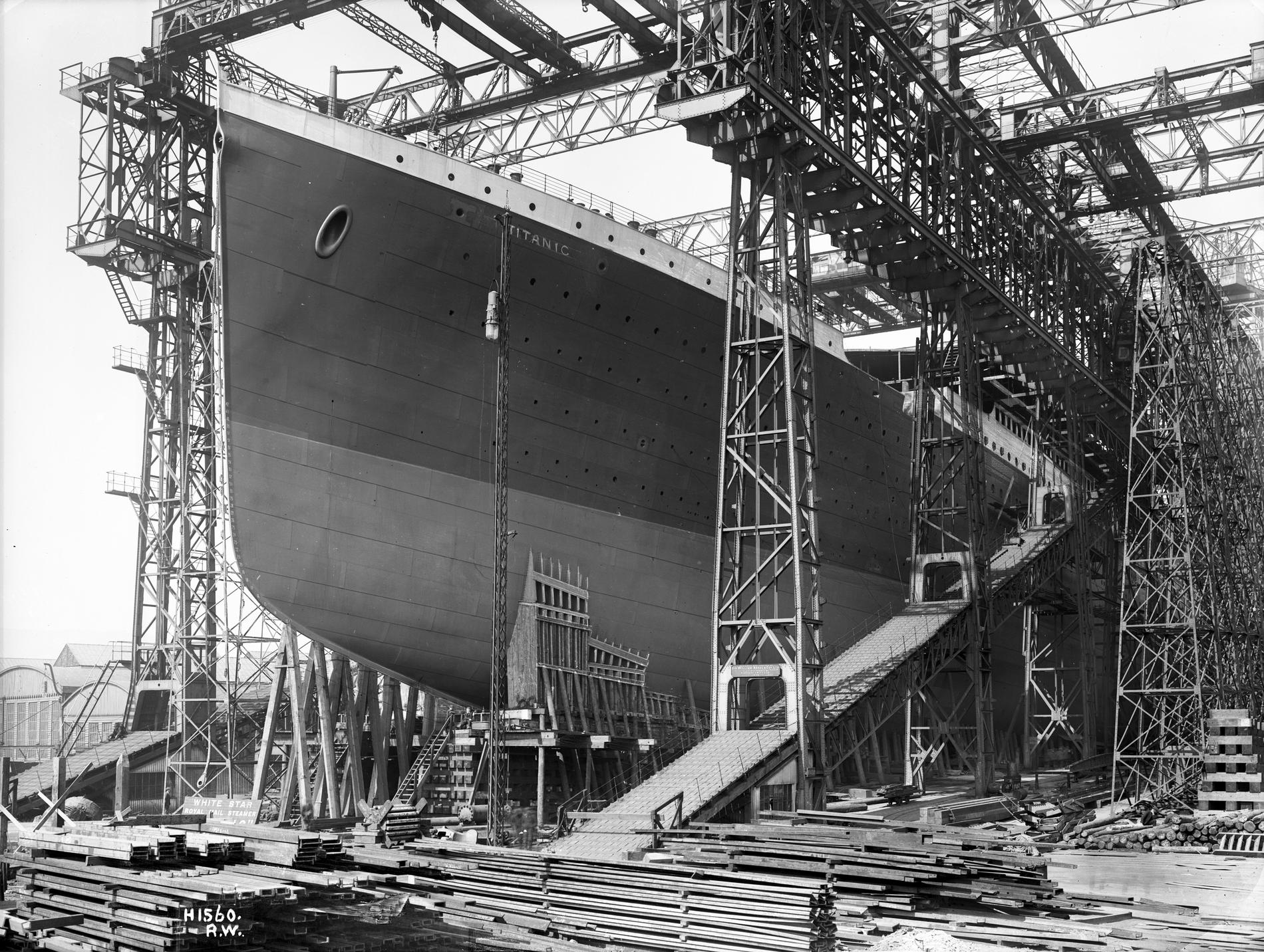 The RMS Titanic ready for launch. The ship was constructed on Queen's Island, now known as the Titanic Quarter, in Belfast Harbour where was part of the Harland and Wolff shipyard.